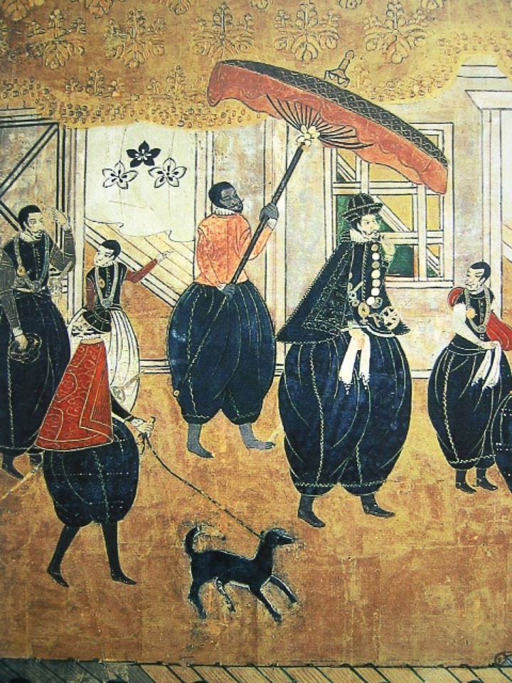 Japanese painting depicting a group of Portuguese Nanban foreigners who arrived in Japan (17th century). Yasuke was a black man who came to Japan during the Sengoku period.